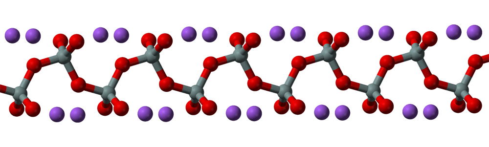 Ball-and-stick model of a silicate chain in the crystal structure of sodium metasilicate, Na2SiO3. X-ray crystallographic from W. S. McDonald and D. W. J. Cruickshank (January 1967). "A reinvestigation of the structure of sodium metasilicate, Na2SiO3". Acta Cryst. 22 (1): 37-43. Model constructed in CrystalMaker 8.1. Image generated in Accelrys DS Visualizer.